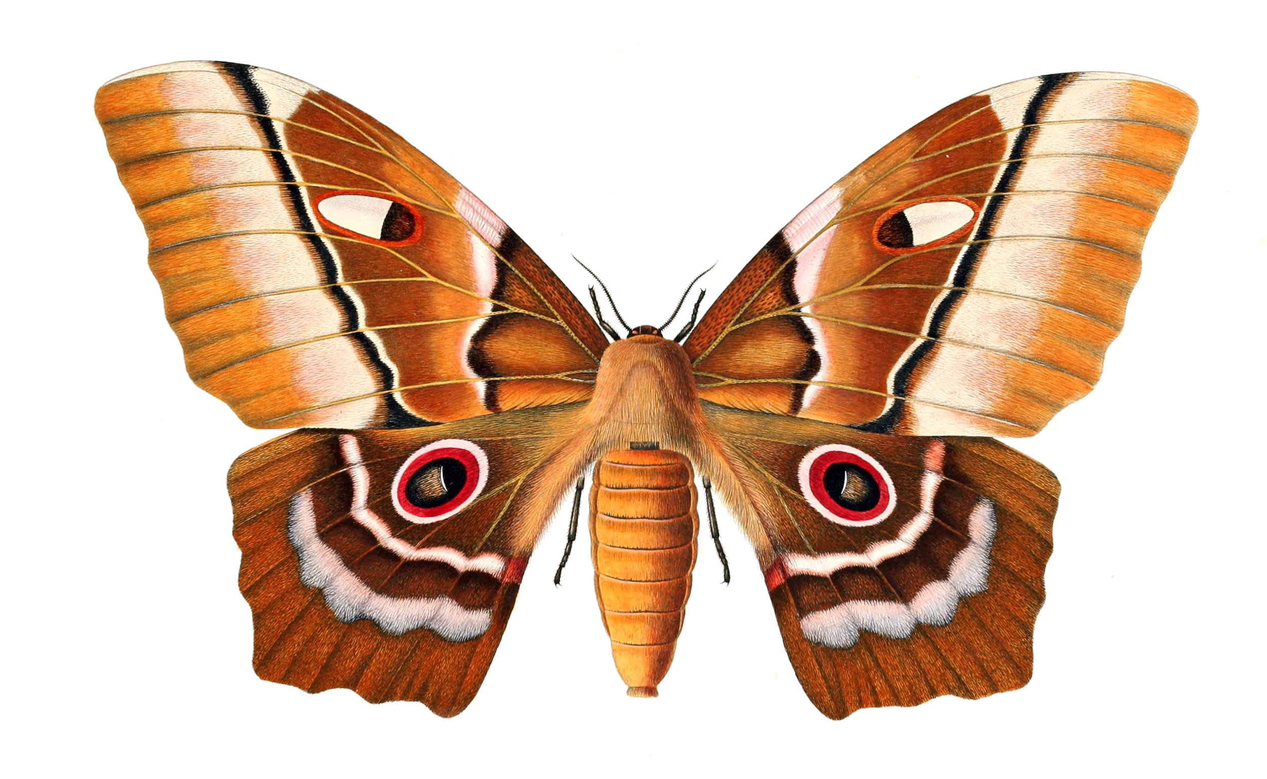 Saturnia deyrollei = Pseudimbrasia deyrollei - male specimen (holotype)